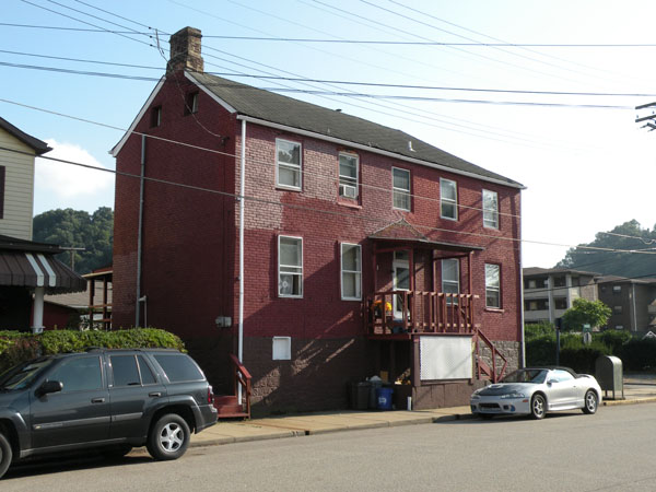 Picture of the house that Bernhard Müller lived in from 1832 to 1833. Located in Monaca, Pennsylvania, at the corner of Atlantic Avenue and Fifth Street. The historical marker located near the house says the following: "New Philadelphia Society founded 1832 by dissident members of the Harmony Society of Economy, Pennsylvania. The house on this corner was the home of the society leader Count Maximilian de Leon and is believed to be the oldest house in Monaca. Beaver County Historical Research & Landmarks Foundation".